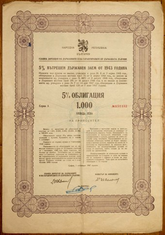 Bulgarian obligation, 5% state loan, for 1000 leva, dated 1943 year